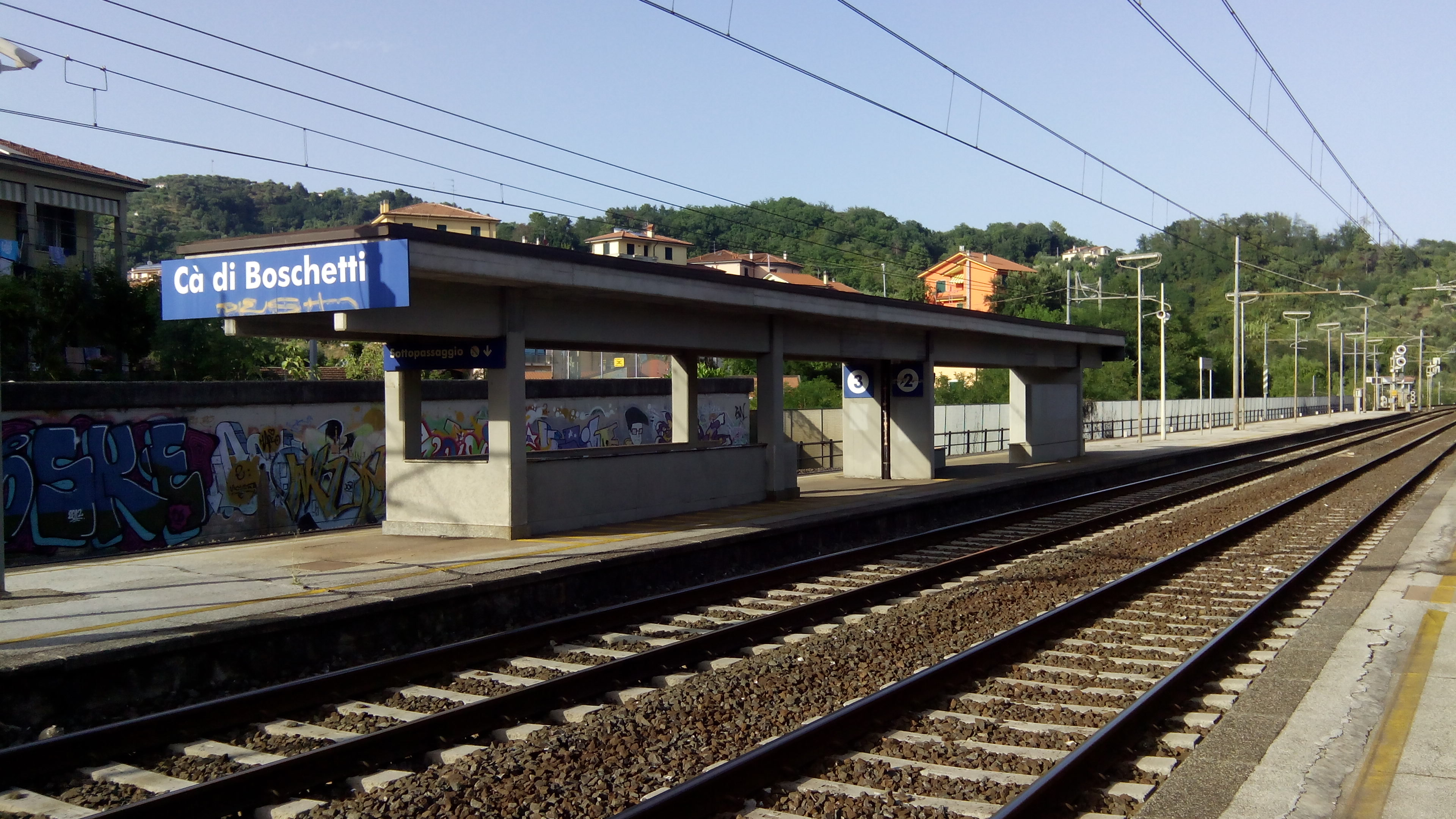 Ca' di Boschetti Railway Station (La Spezia)